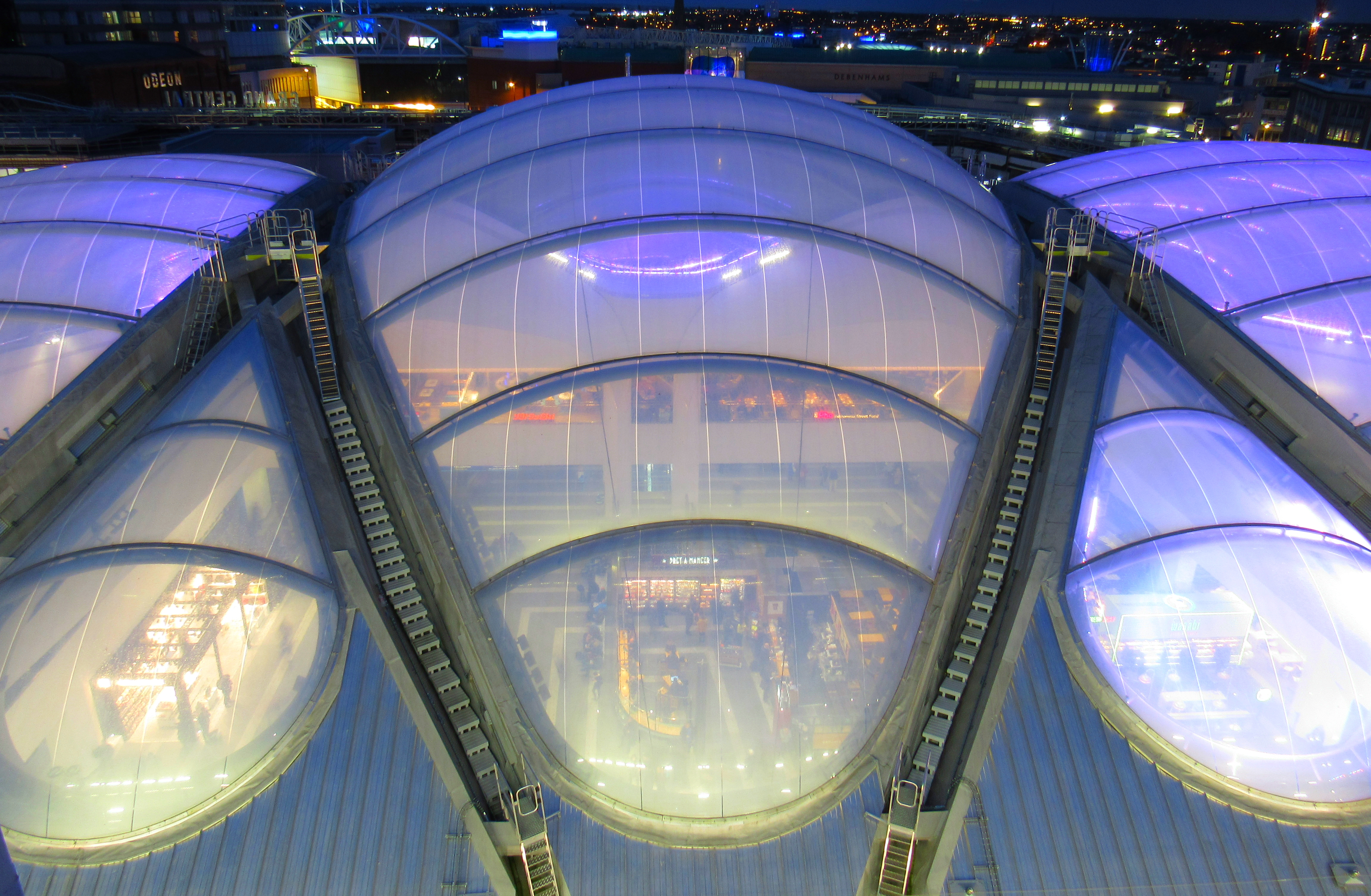 View from above of the roof of Birmingham New Street railway station and the Grand Central Shopping Centre in Birmingham, England